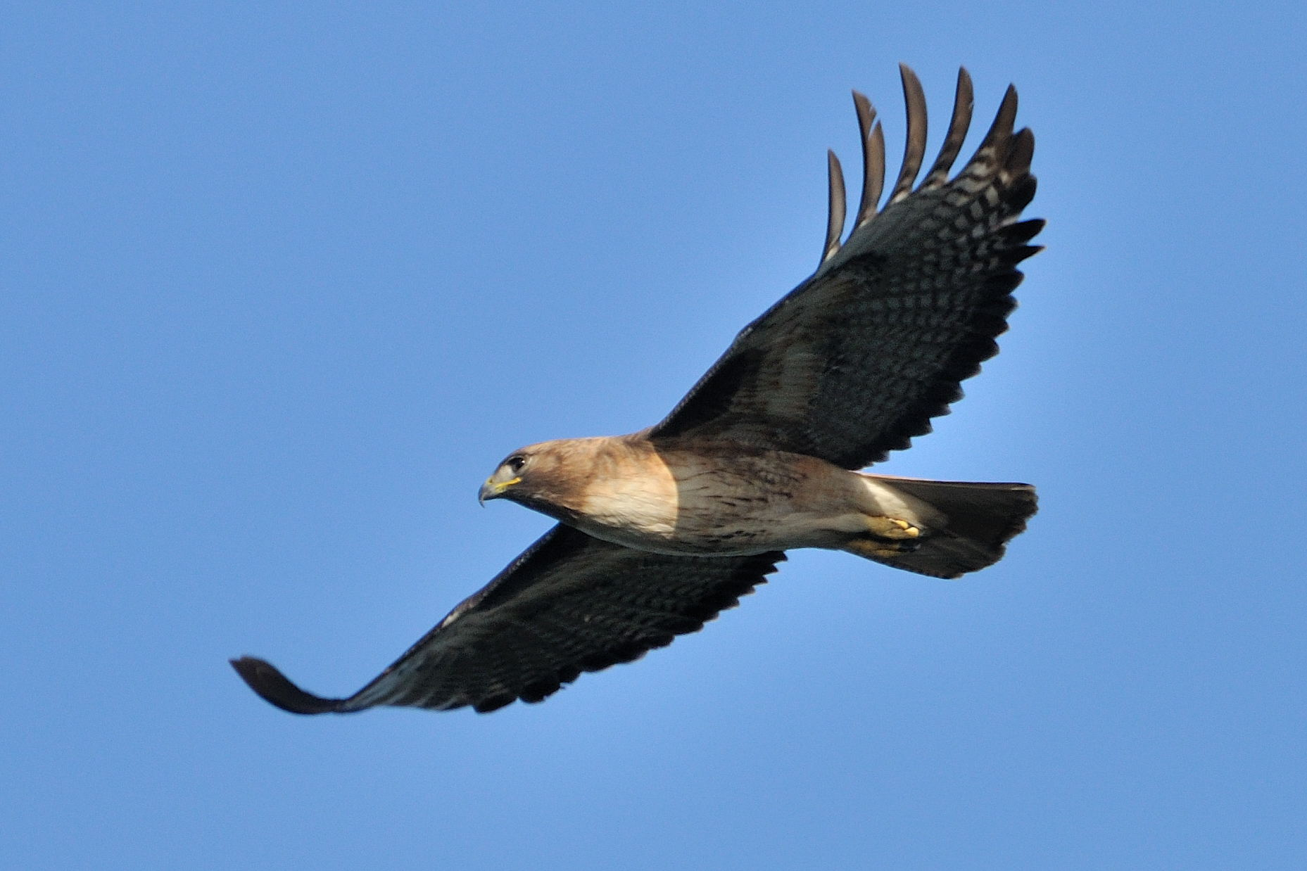 Red-tailed Hawk (Buteo jamaicensis) at Shoreline ParkScene, Mountain View, California, USA. It is the subspecies B. J. calurus and a light morph.